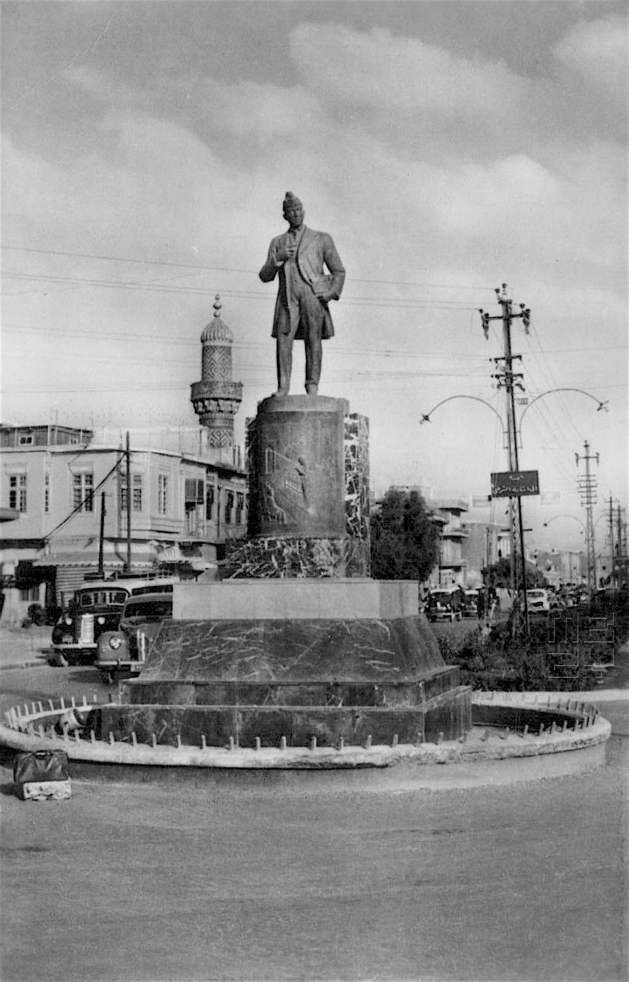 Abd al-Muhsin Al-Saadoun monument, Baghdad, 1950s